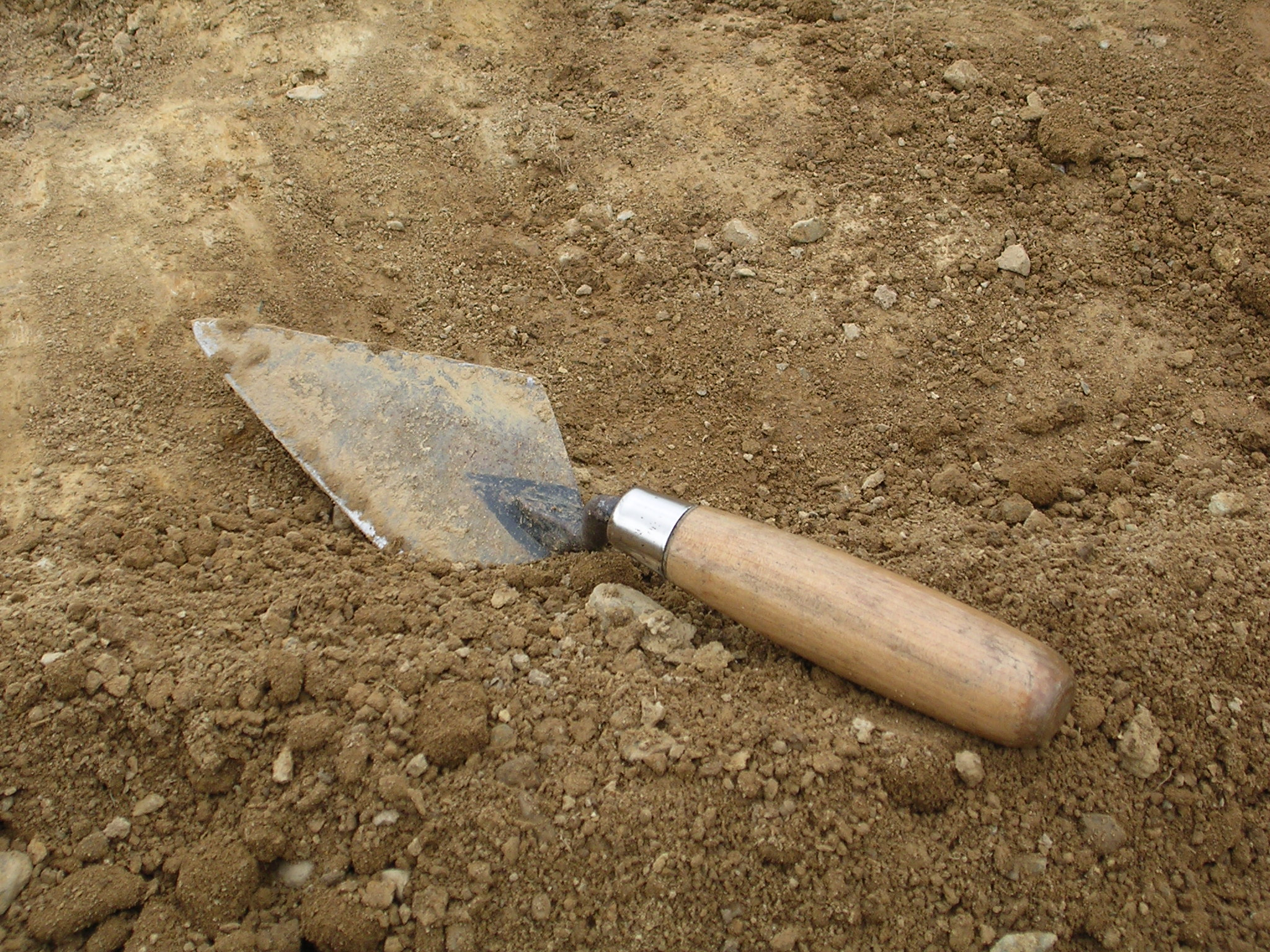 Trowel